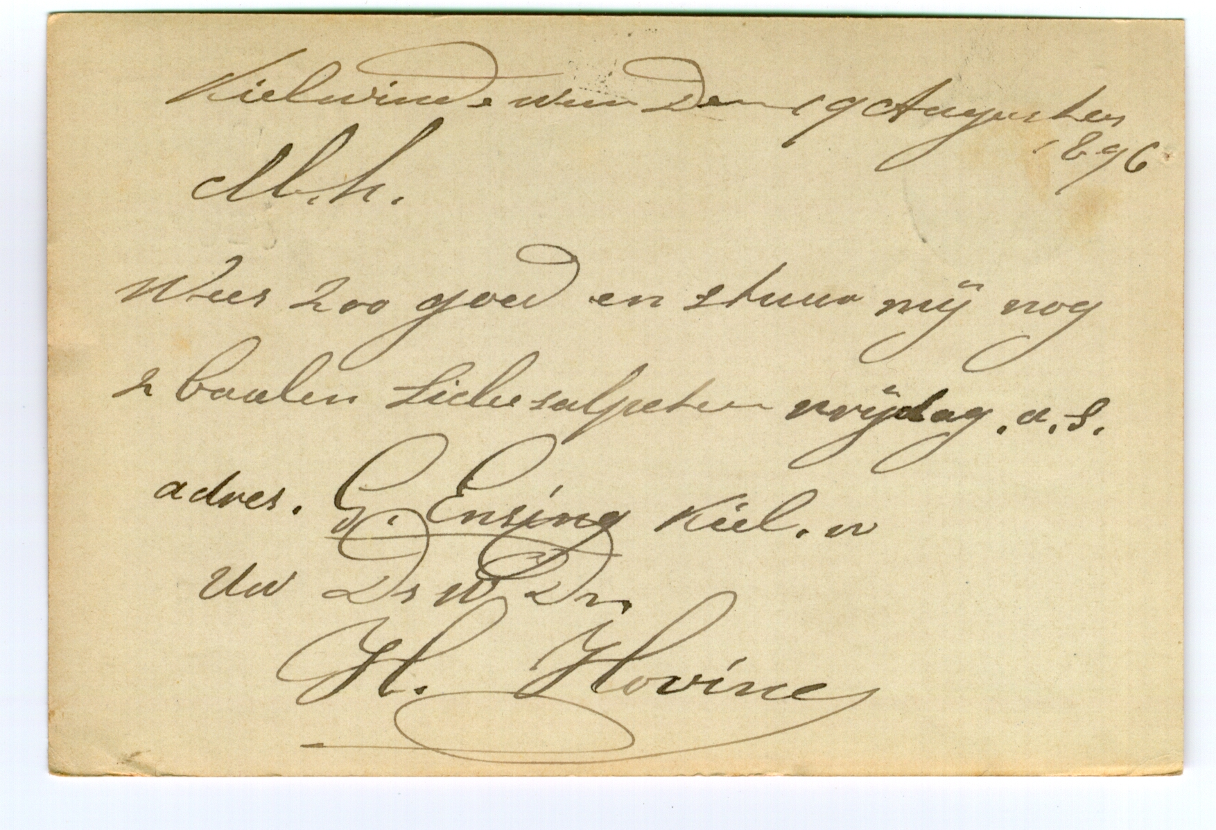 Dutch postal card, cancelled Hoogezand 1896-08-19